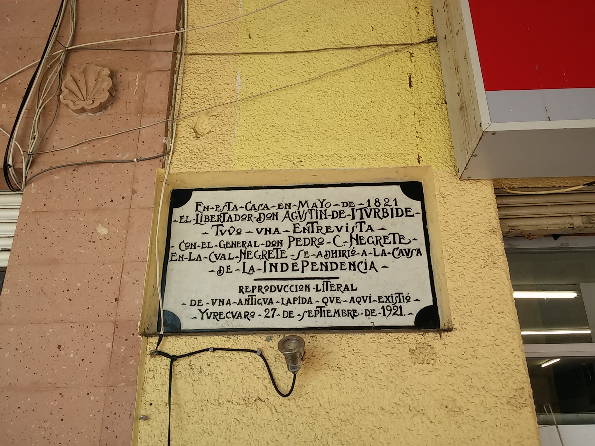 Placa que conmemora la visita de Agustín de Iturbide a Yurécuaro, localizada en el portal Negrete de esa ciudad